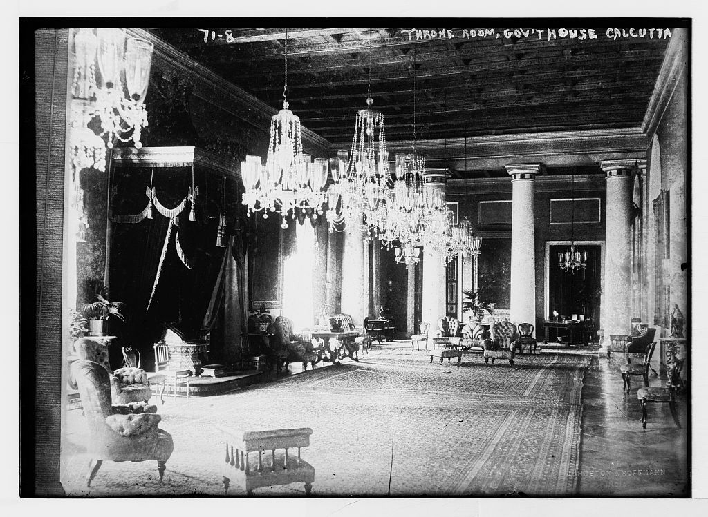 The Throne room at Government House, Calcutta in 1922.